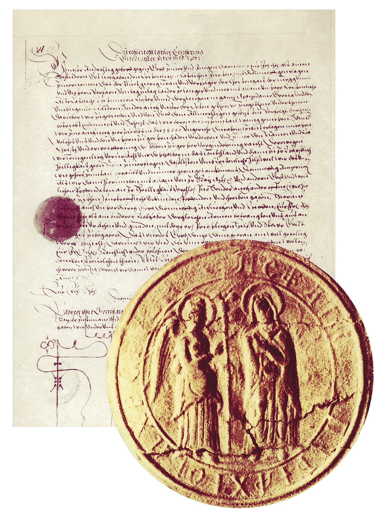 The letter from the Ohrid Archbishop Gavril to the Archduke Ferdinand of Habsburg, asking for help for the Ohrid Archbishopric and a permition to travel to Rome to see the Pope Sixt V, to form a covenant for liberation of the Christians from the Turkish slavery. The seal of the Ohrid Archbishopric from the 16th century, magnified. (October 8, 1587) This media file is produced by Wikipedian in Residence in Category:Wikipedian in Residence at DARM in 2016.